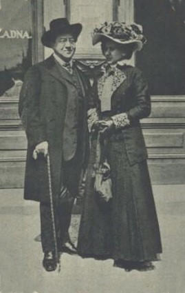 Václa Kliment, Czech opera singer and Leopolda Dostalová, Czech actress, before 1918